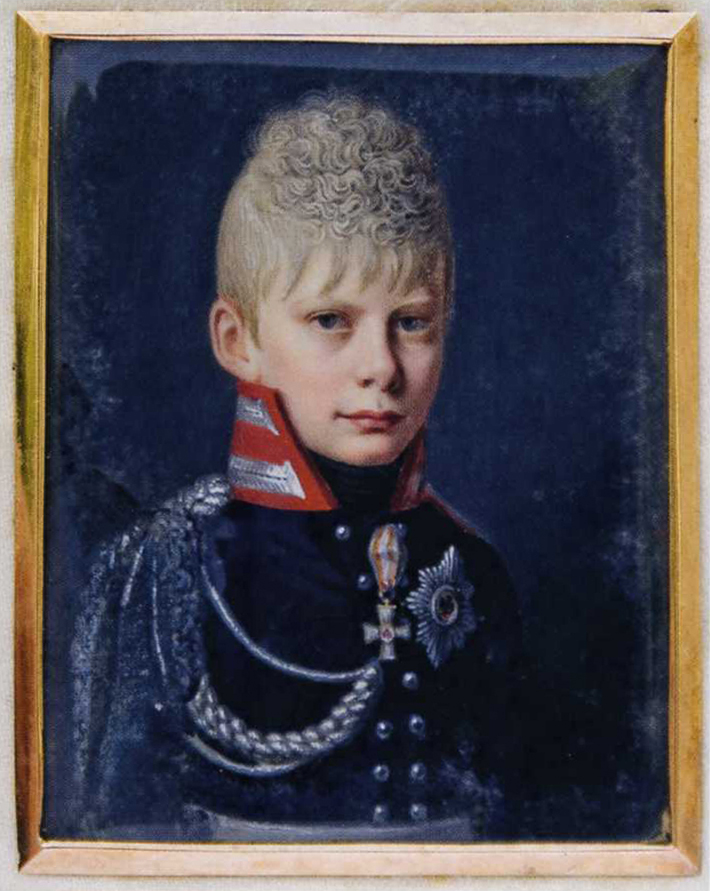 Crown Prince Frederick William (IV). Gift of the royal family to prince tutor Delbrück.